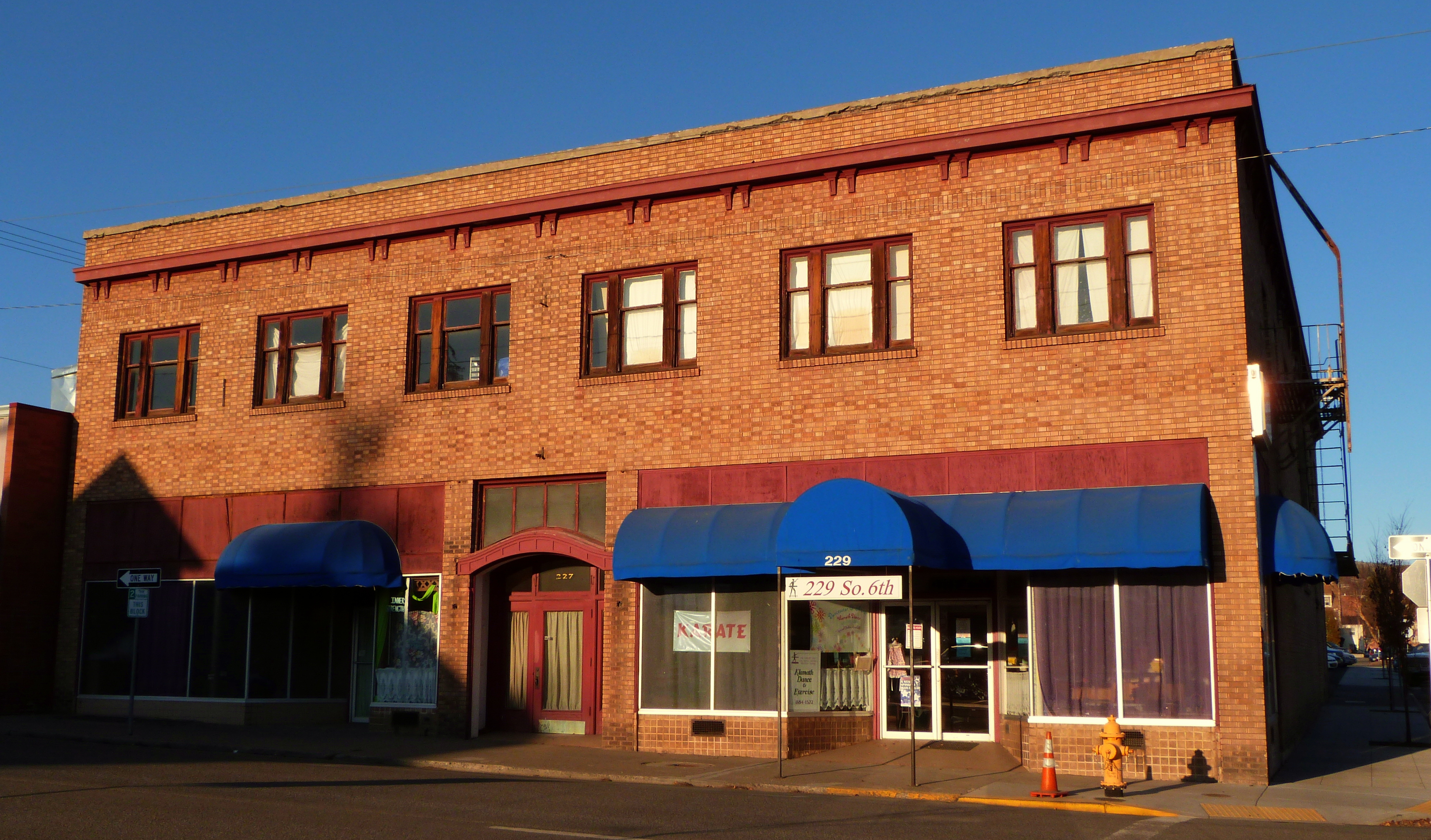 The historic Bisbee Hotel (built 1926), located at 229 South 6th Street in Klamath Falls, Oregon, United States, is listed on the US National Register of Historic Places.